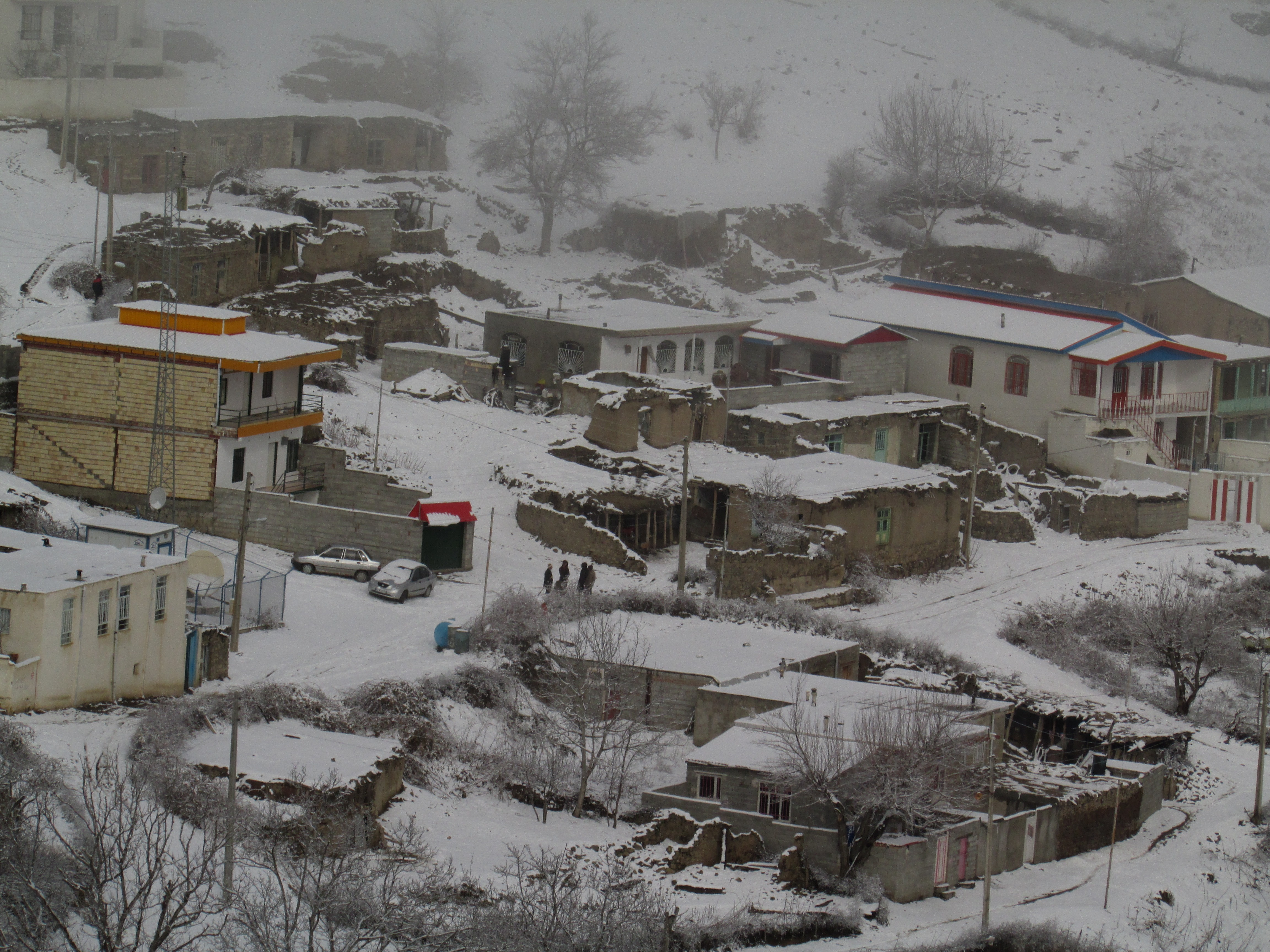 This photo was taken from Abbasabad, Khoda Afarin village in Arasbaran region.